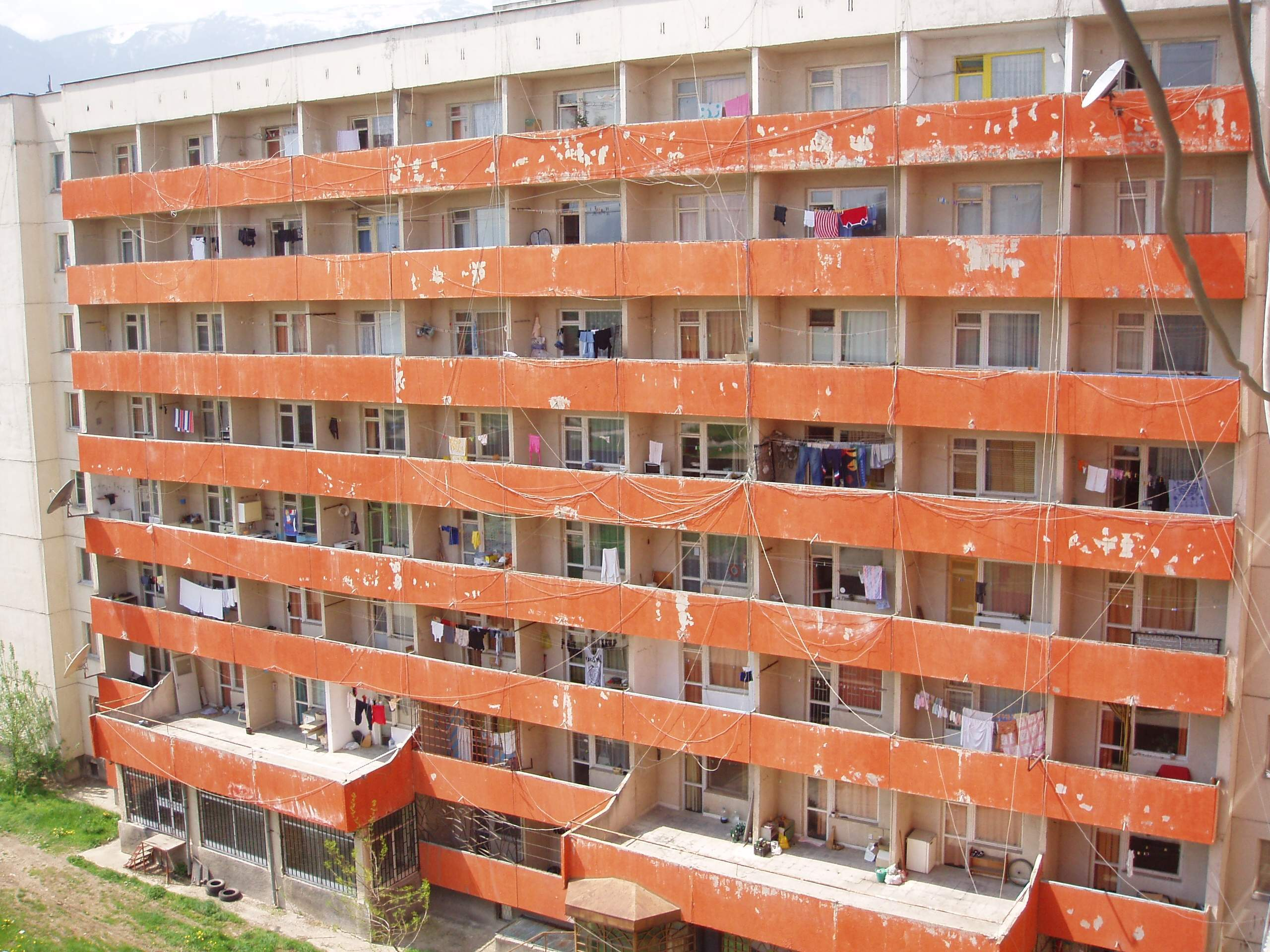 Block 59 in Studentski grad estate, Sofia, Bulgaria